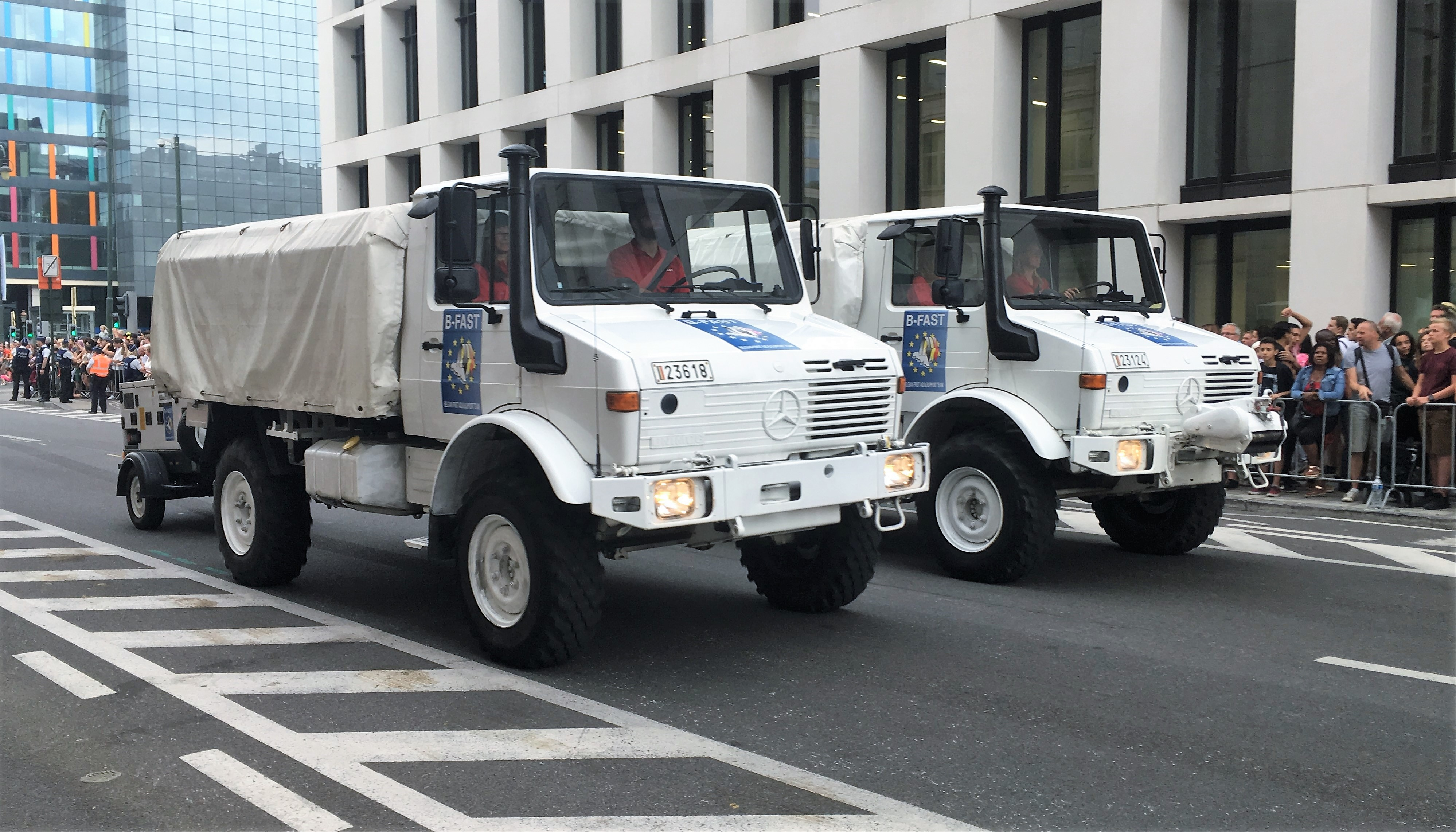 B-FAST vehicles (Belgian First Aid and Support Team) during the National Parade on July 21, 2018